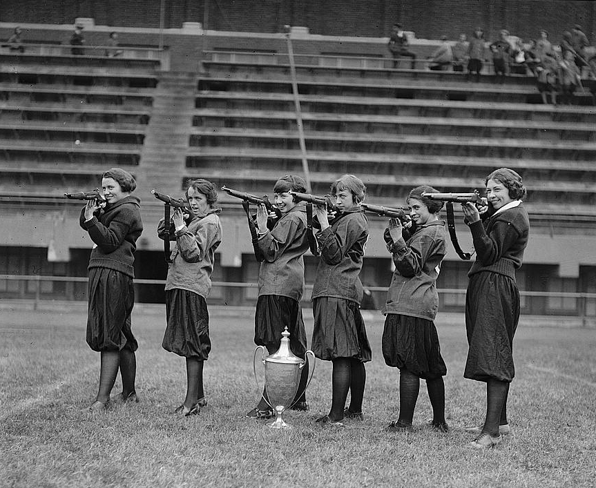 Girls rifle team Central High, Washington, DC. Image cropped for use.